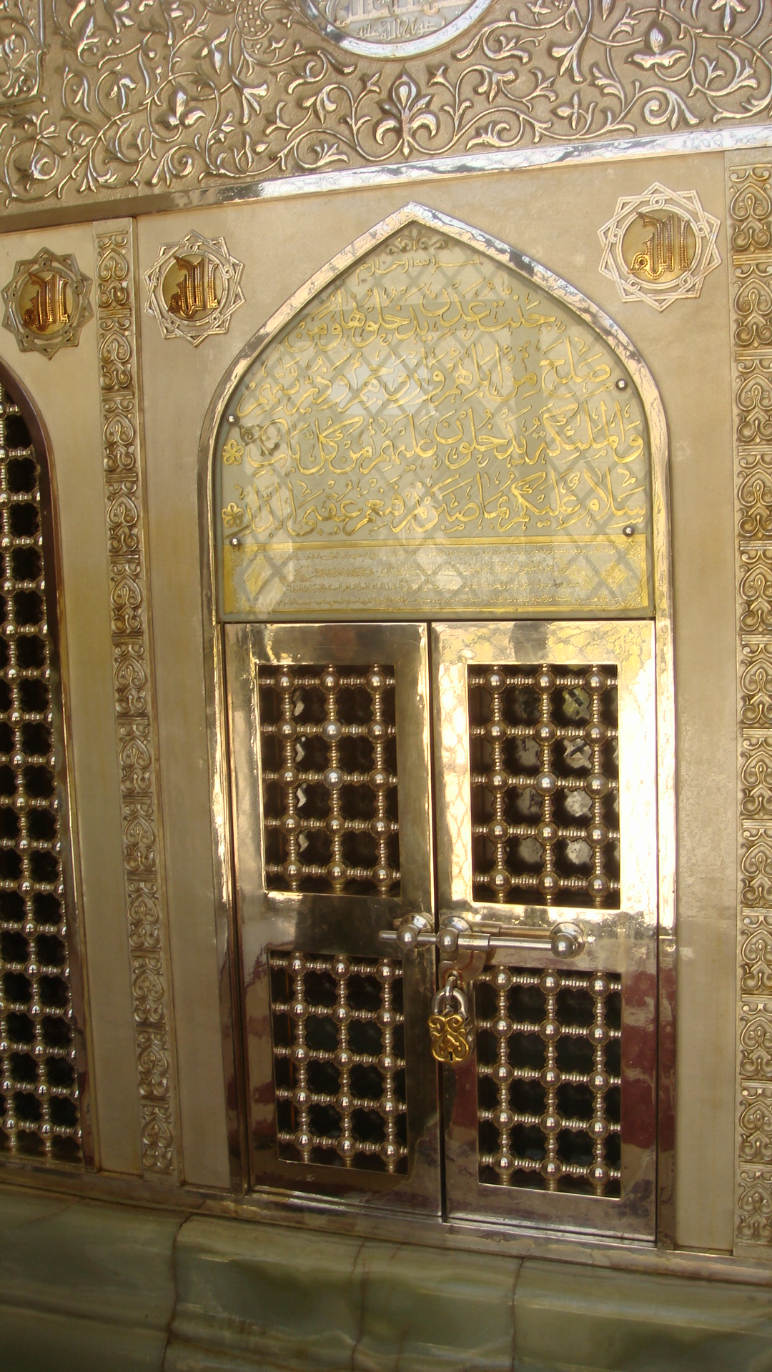 Jafar Grave in Jordan